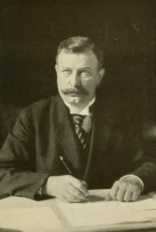 Joseph Wirth, German politician